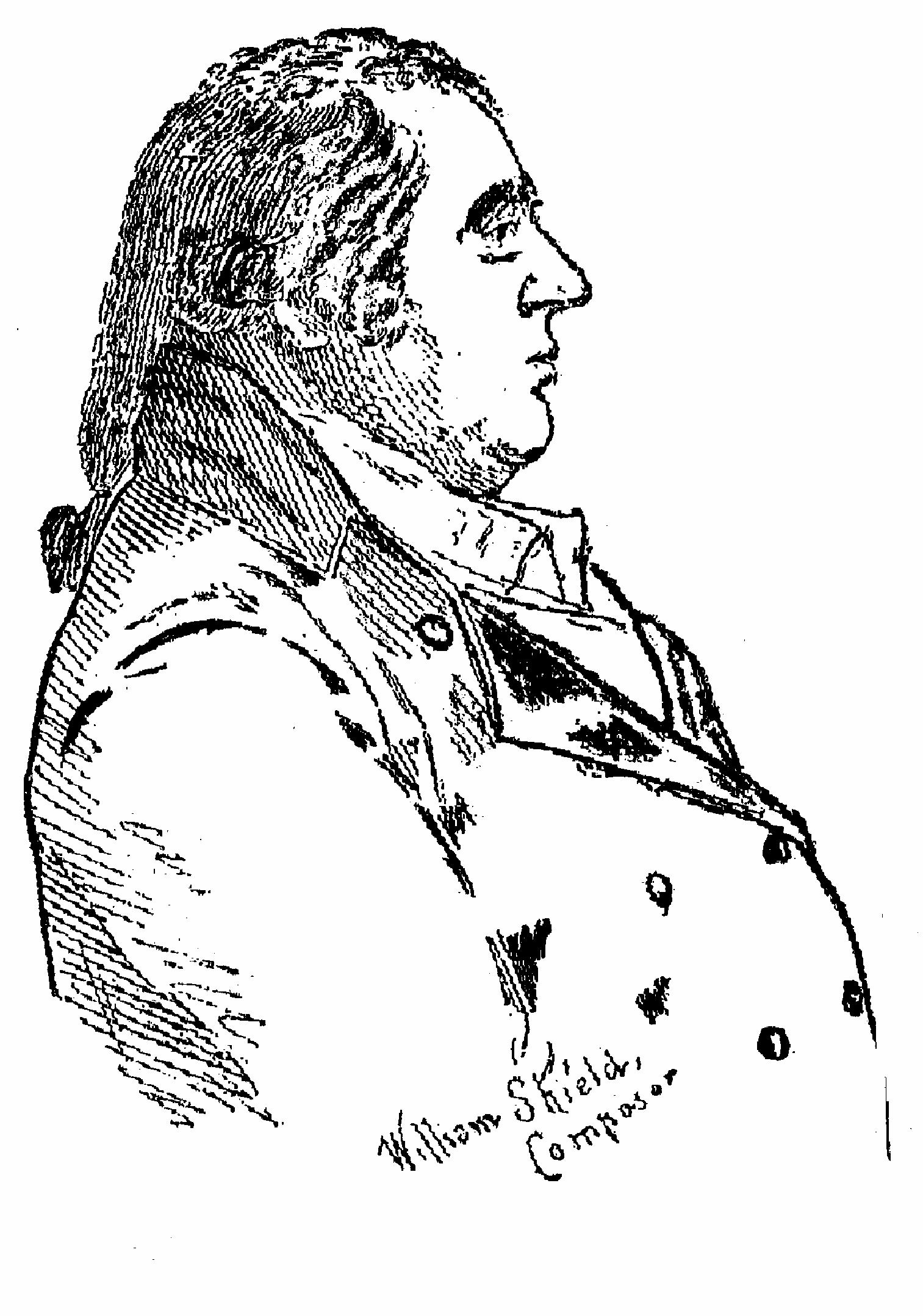 Portrait of William Shield